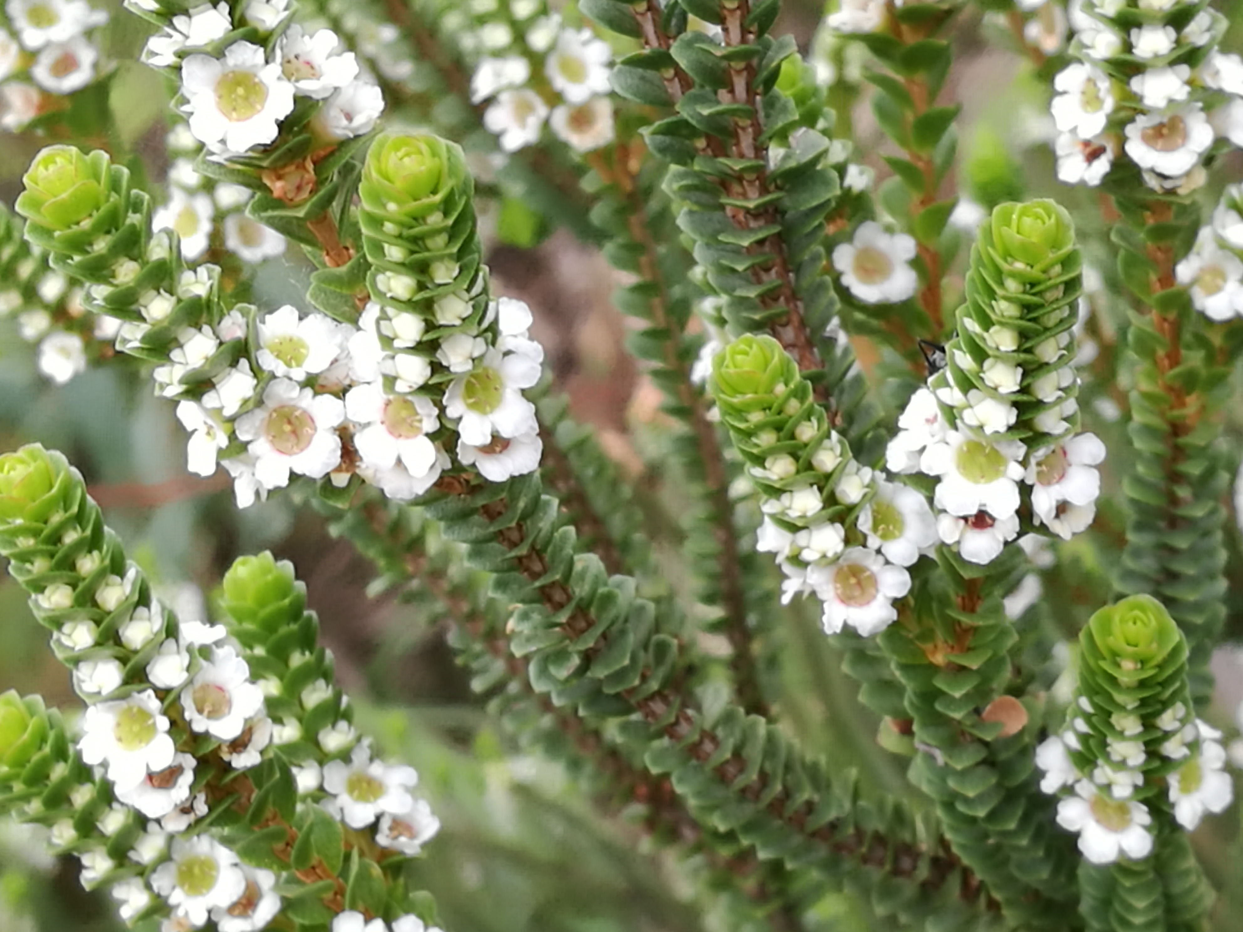 Baeckea imbricata Barrenjoey Lighthouse Track, Palm Beach, New South Wales